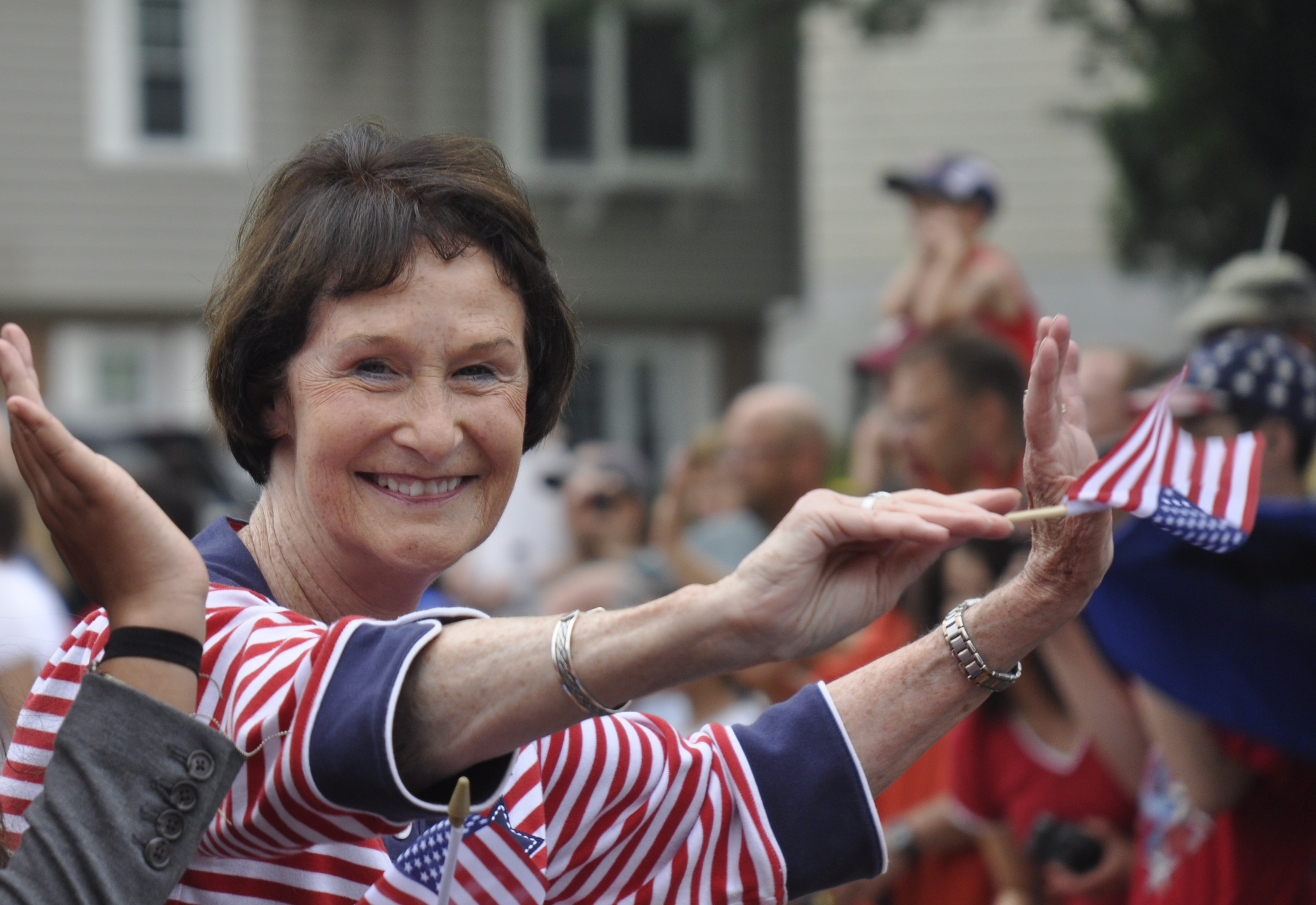 Sharon Bulova at Fairfax City 4th of July Parade